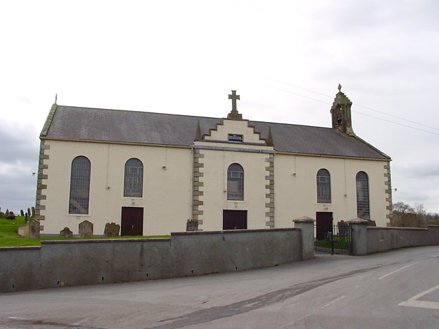 Church of St Patrick, Eglish. The church is on the main road through the village, on the junction with a minor road.